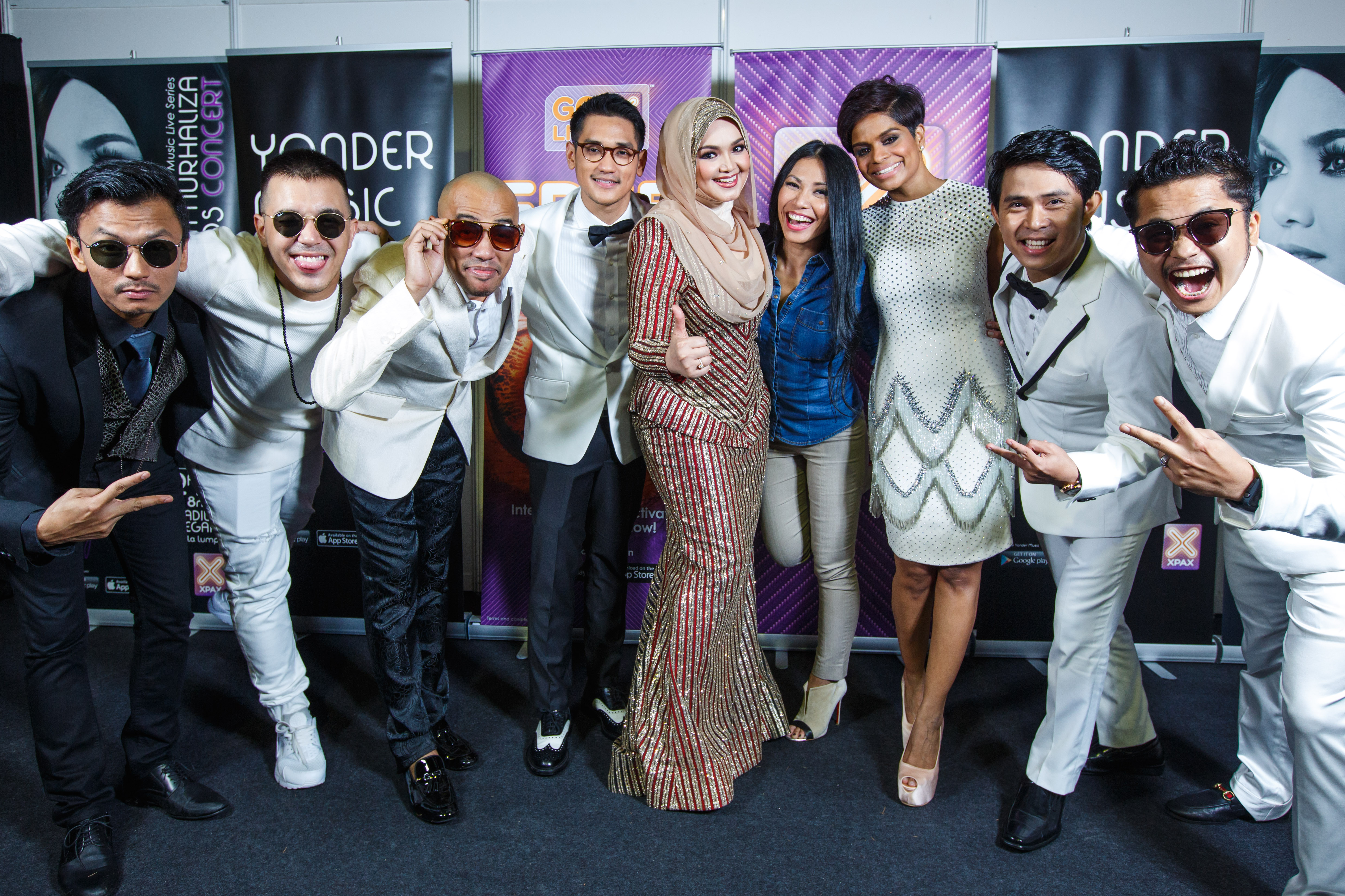 Siti Nurhaliza and her guest artists for Dato' Siti Nurhaliza & Friends concert. From left, Faizal Tahir, Sonaone,Joe Flizzow, Afgansyah Reza, Siti Nurhaliza, Anggun, Jaclyn Victor, Cakra Khan dan Hafiz Suip. Original source is from All Is Amazing's Official Facebook Account.